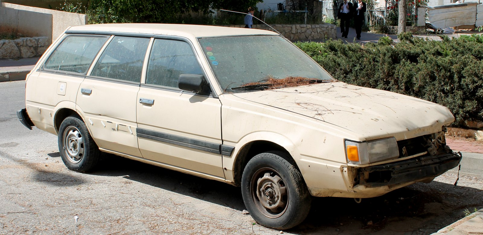 subaro avrechim